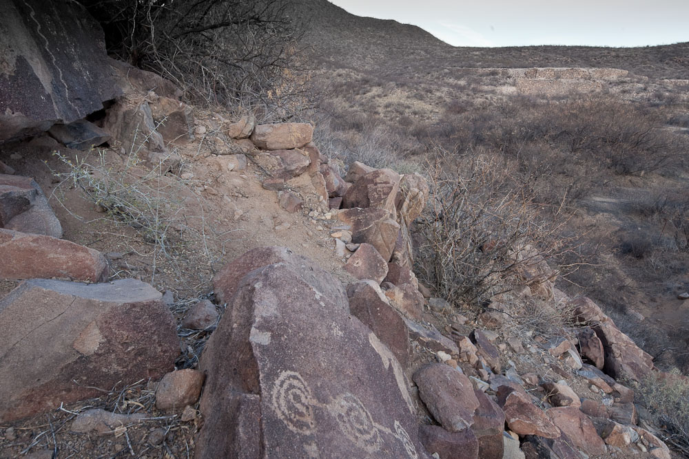 The San Pedro Riparian National Conservation Area contains nearly 57,000 acres of public land in Cochise County, Arizona, between the international border and St. David, Arizona. Photos: Bob Wick, BLM California